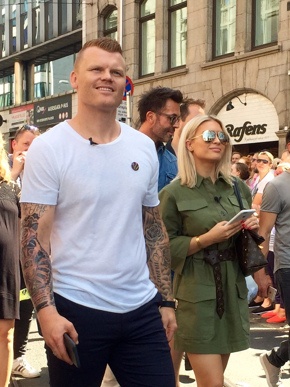 John Arne Riise at Oslo Pride Parade 2016 with wife, Louise Angelica Riise